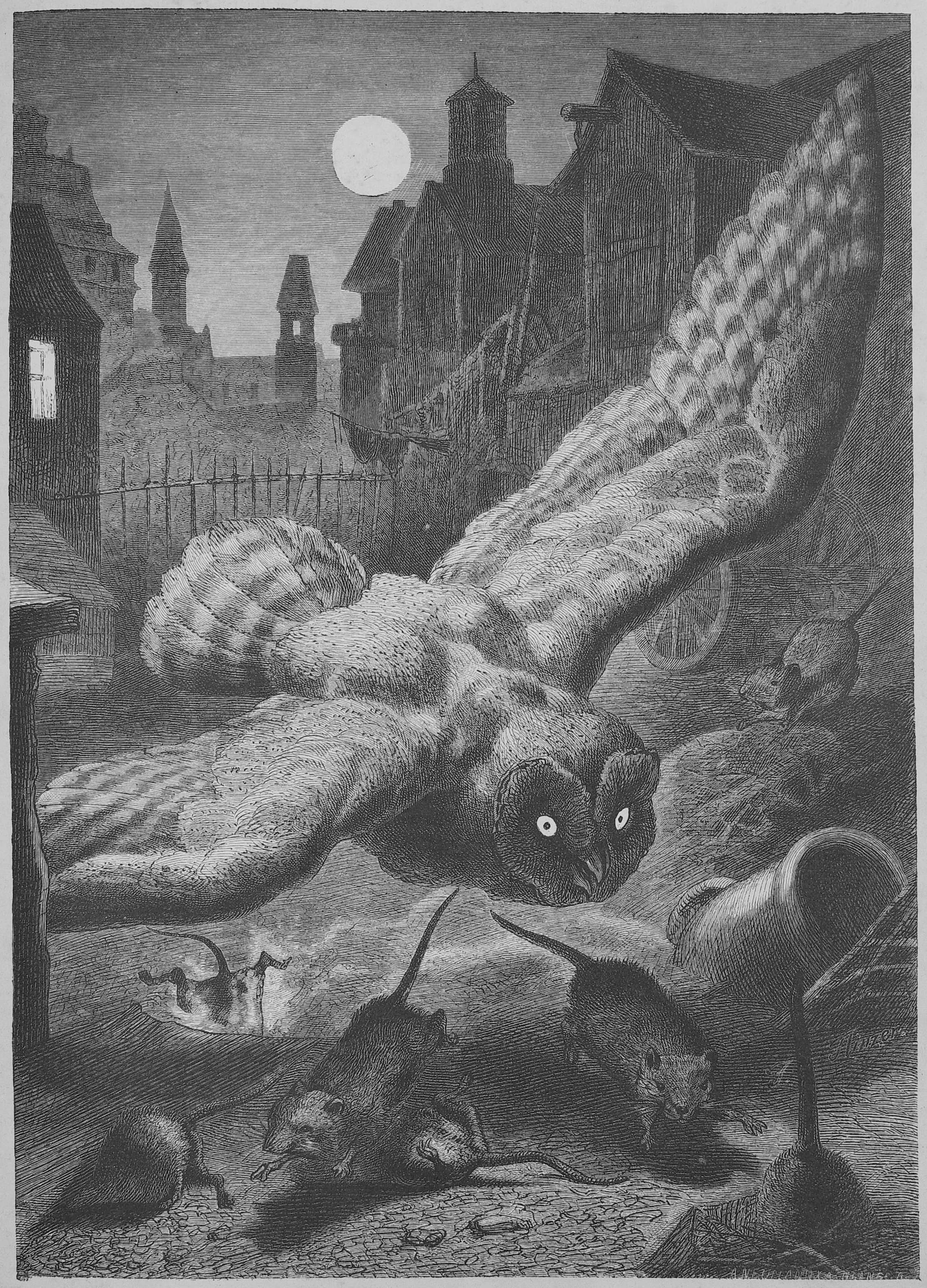 caption: "Ein panischer Schrecken. Originalzeichnung von Fedor Flinzer."